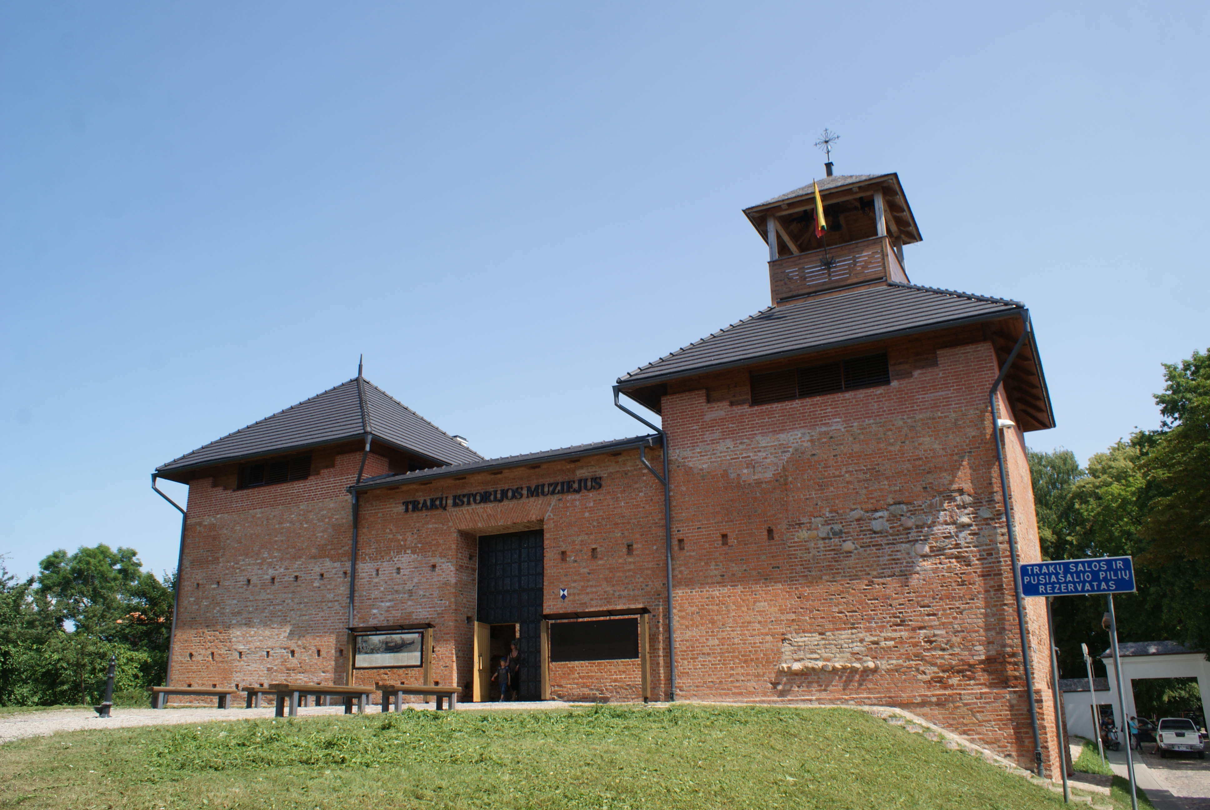 Historical Museum in Trakai